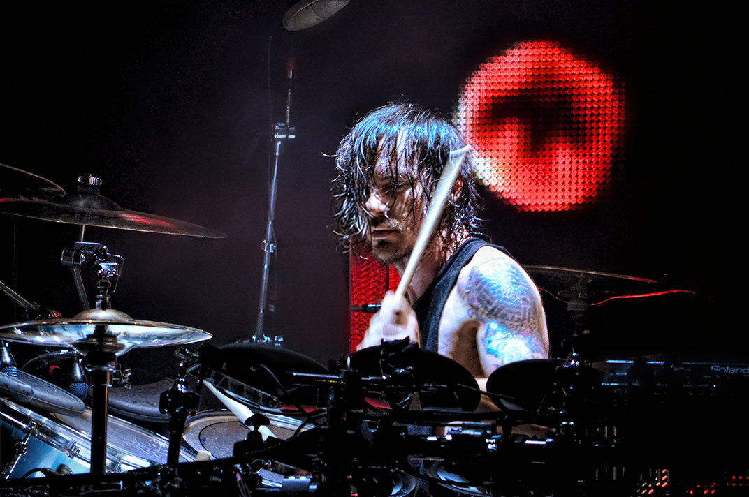 Shannon Leto performing in Lucca, Italy on July 13, 2013